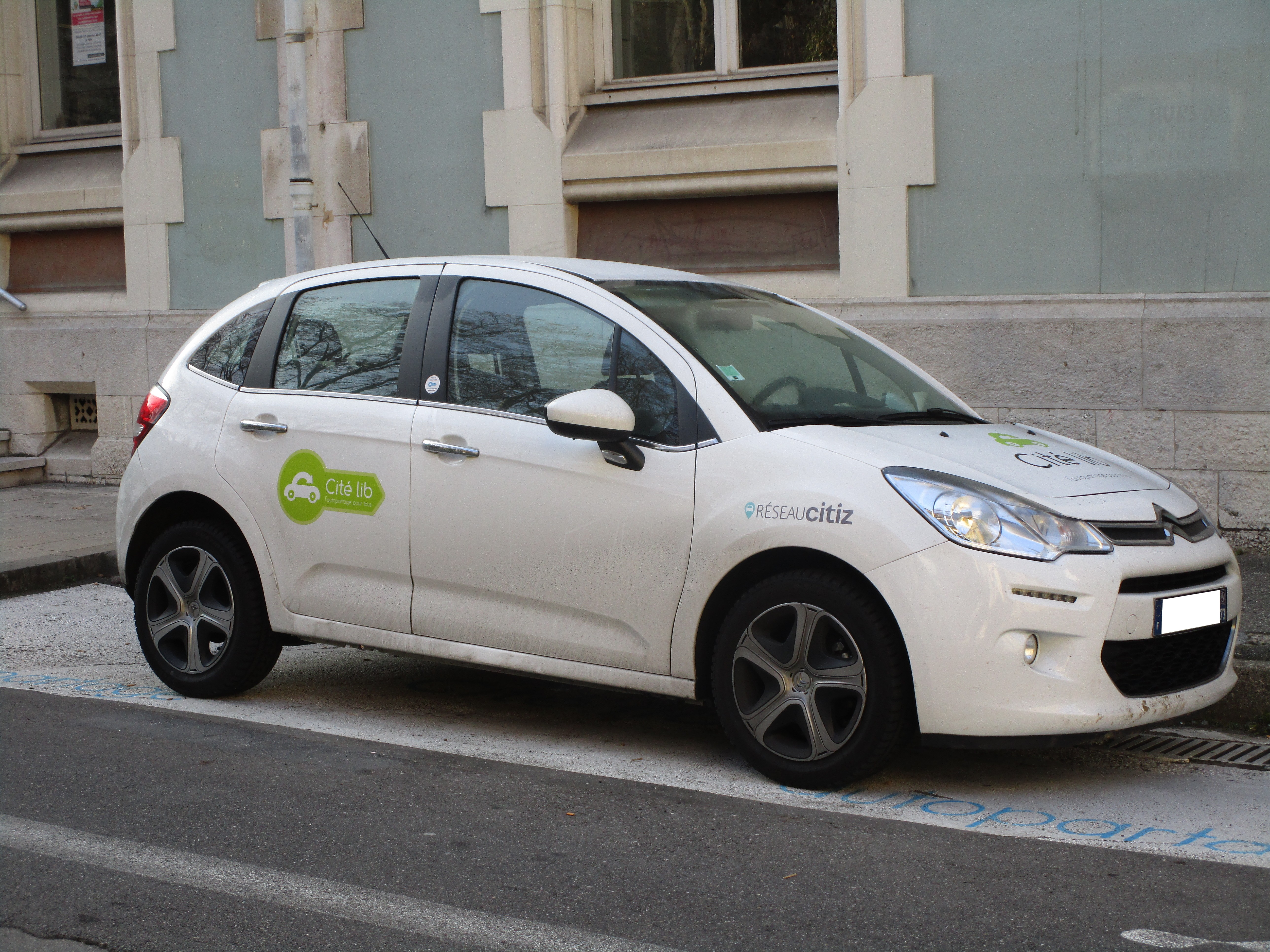 A car Citroën C3 II of Cité Lib — in Chambéry, France — on December 28, 2016.